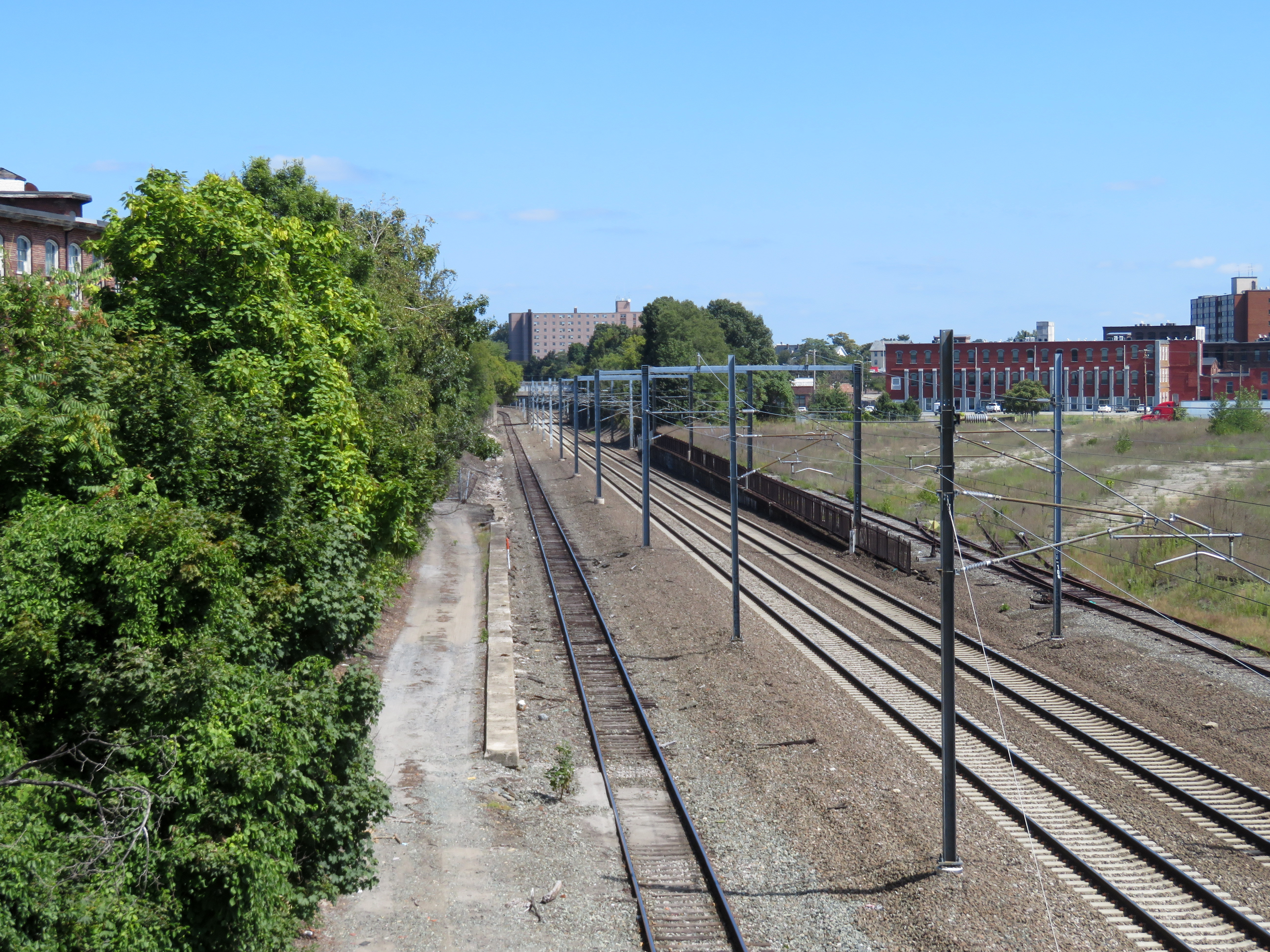 Located of the proper Pawtucket/Central Falls station, seen in September 2018